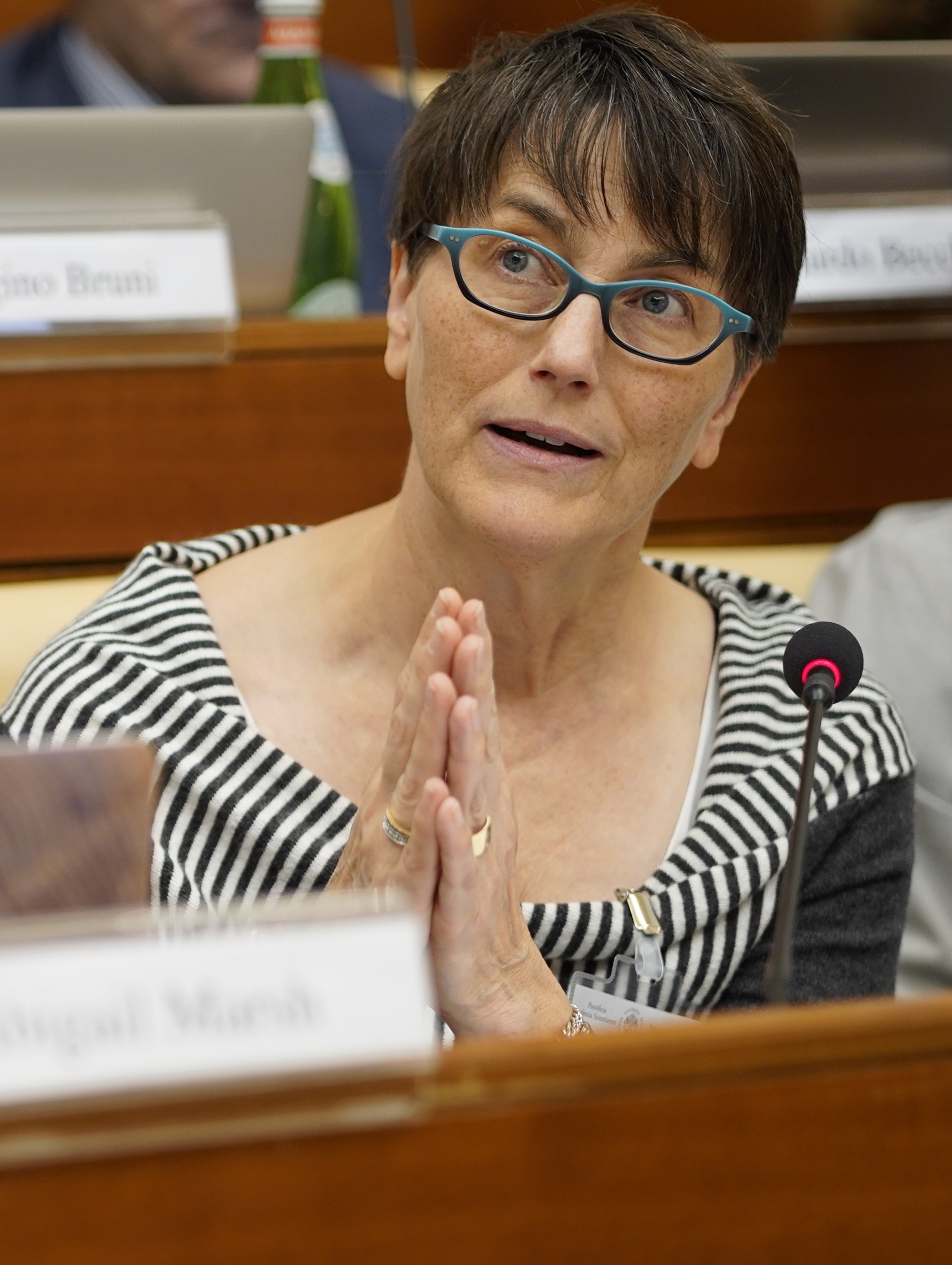 Barbara Fredrickson at the Pontifical Academy of Sciences, 5 November 2019